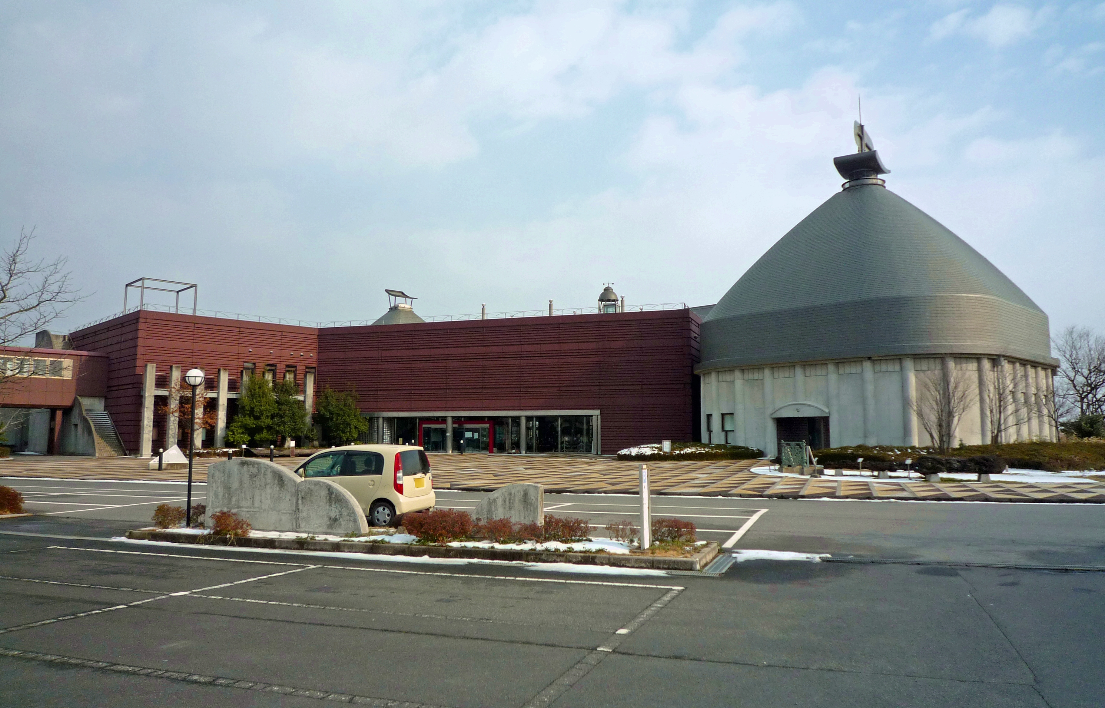 Wakō Museum in Yasugi City, Shimane Prefecture, Japan.